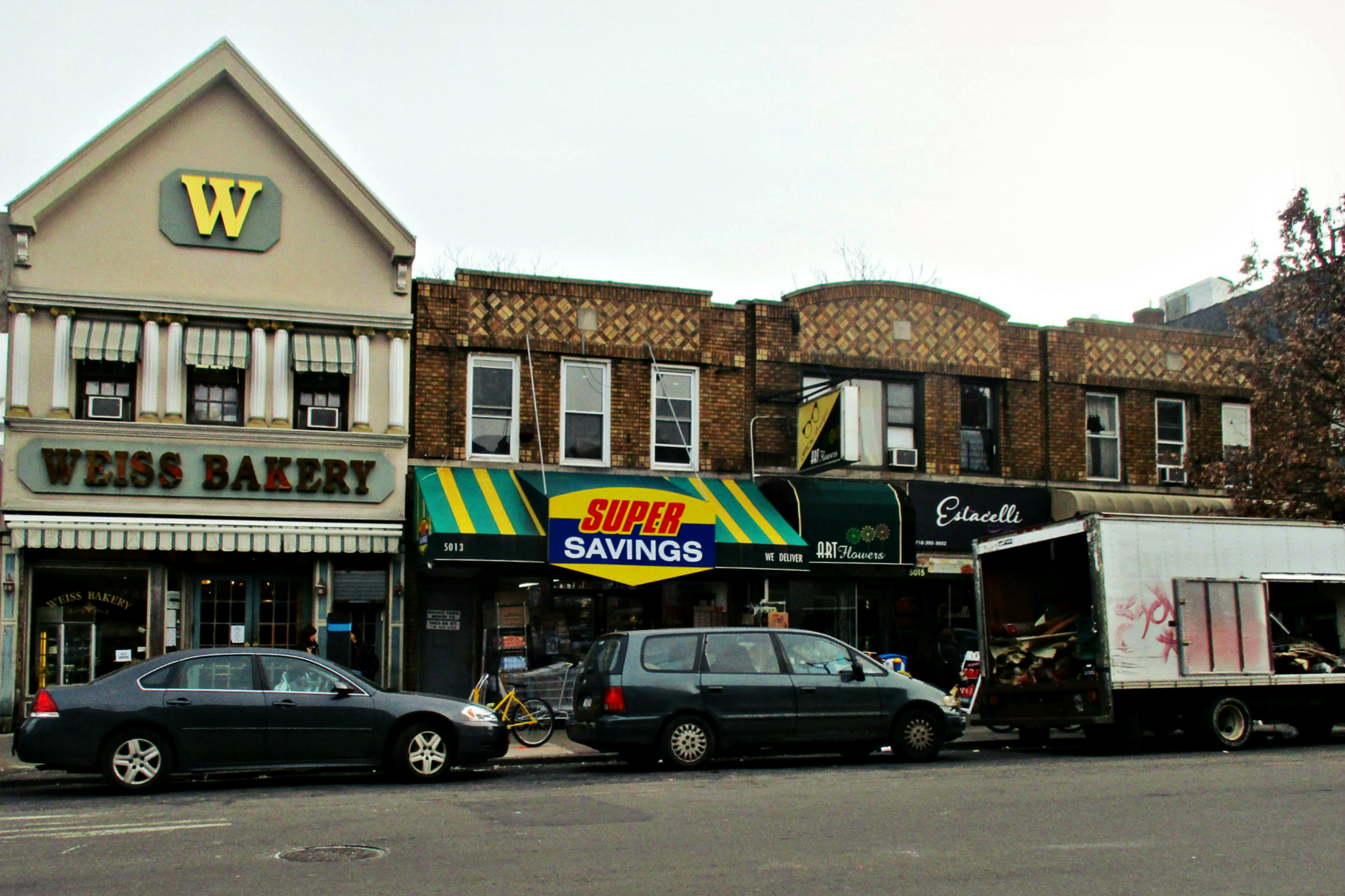 13th Avenue, Boro Park